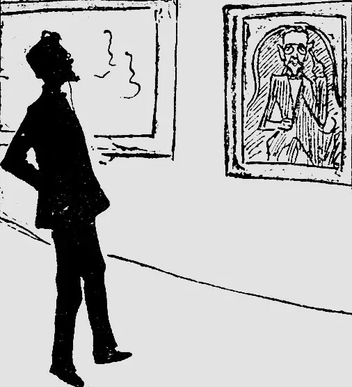 Anton Chekhov looking at his portrait in Tretyakov gallery in Moscow, a work by O. Braz. Caricature by A.A. Khotyaintseva.